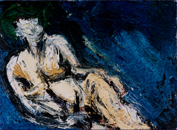 Sonja Vukašinović, Niš, Serbia